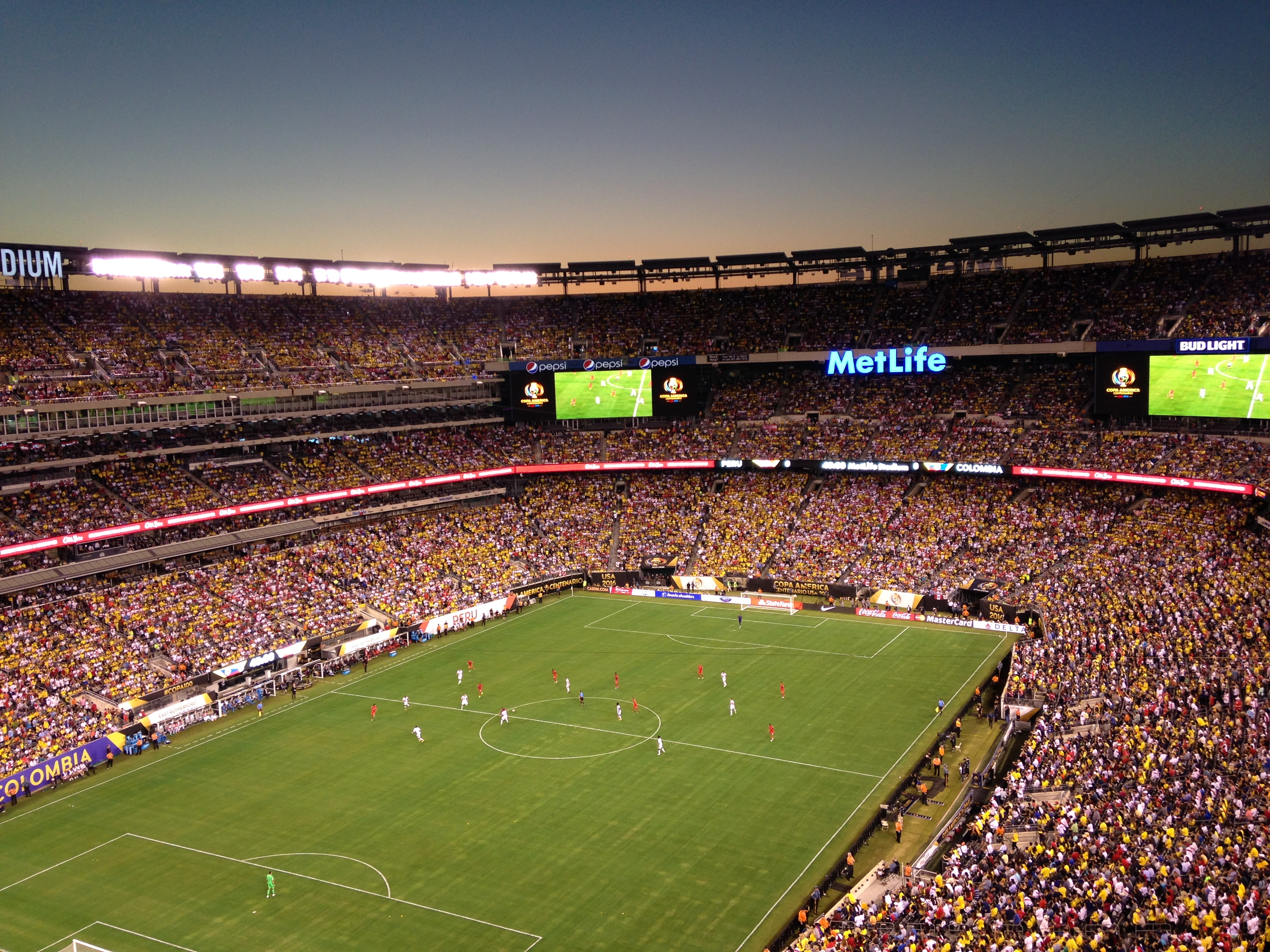 2016. Columbia won in the penalty shootout.